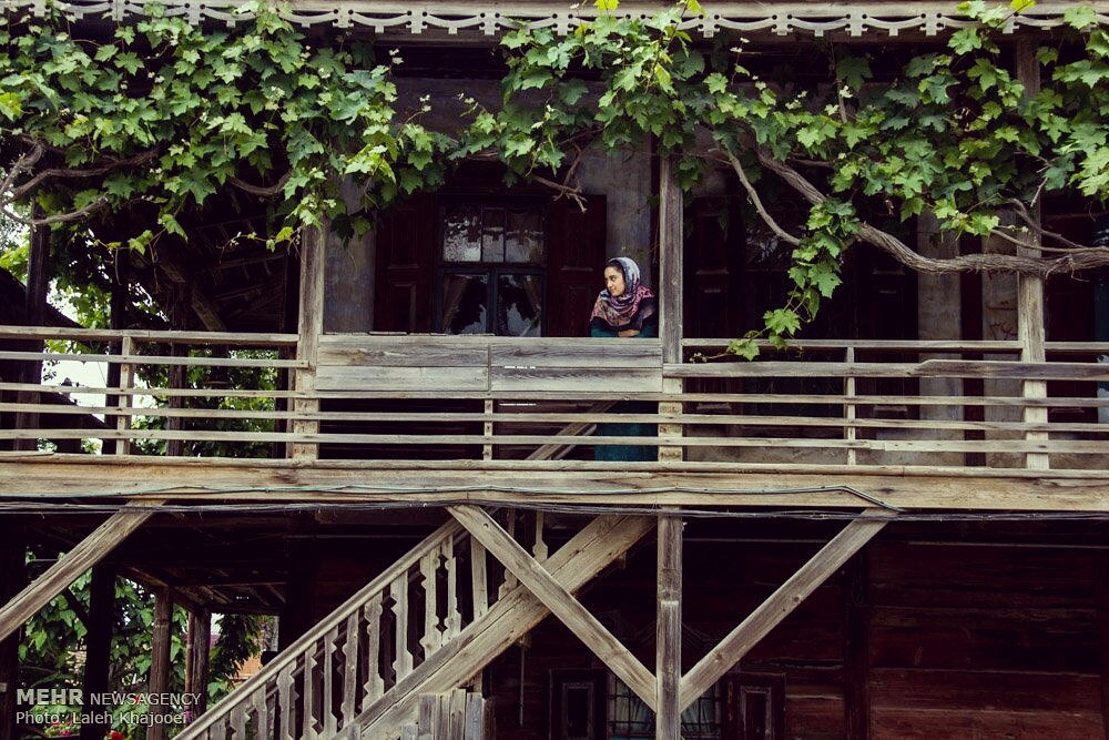 abedikor